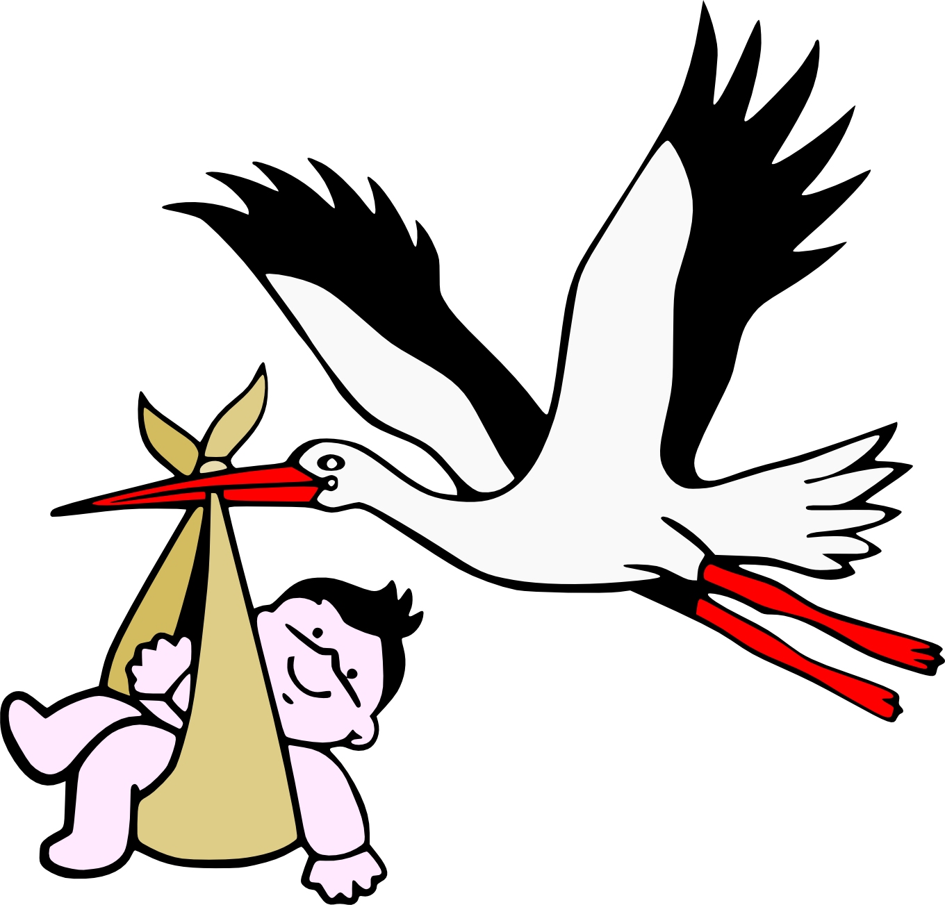 A star is born.